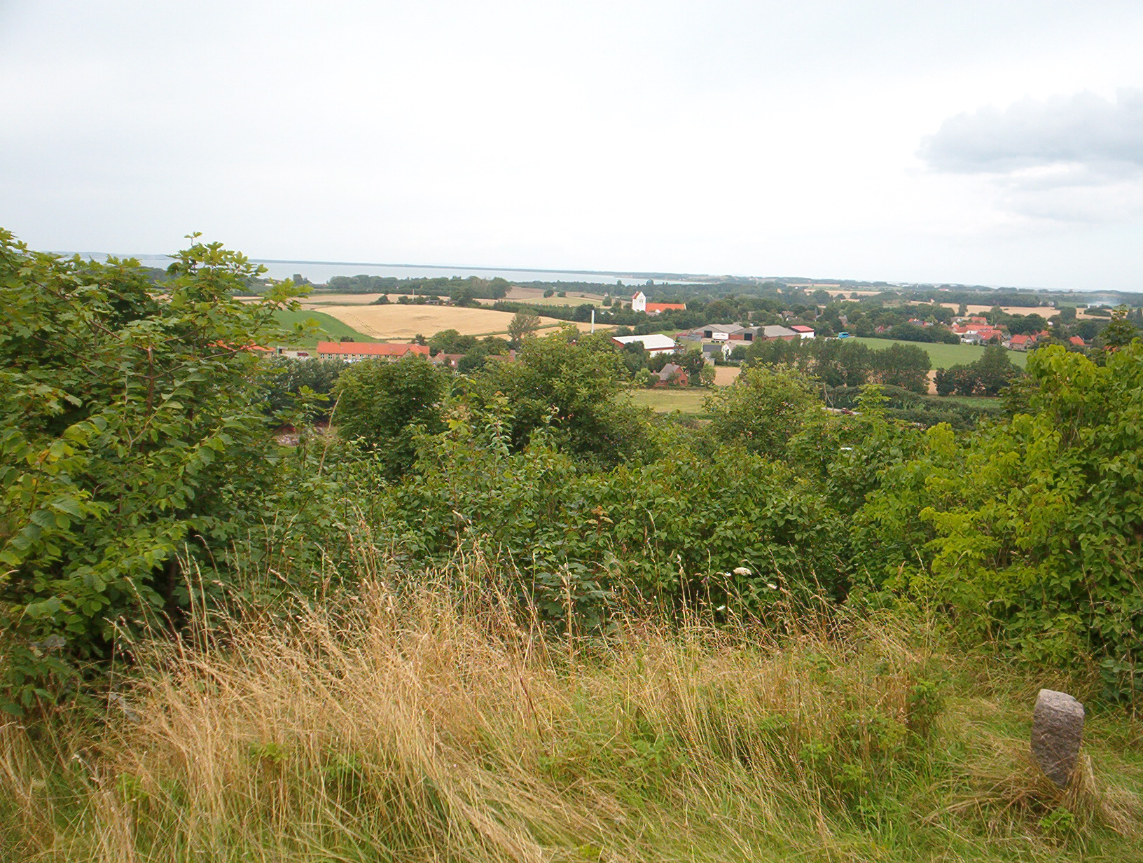 View northwards from Dyret Source: Photo taken by Bruger:Palnatoke